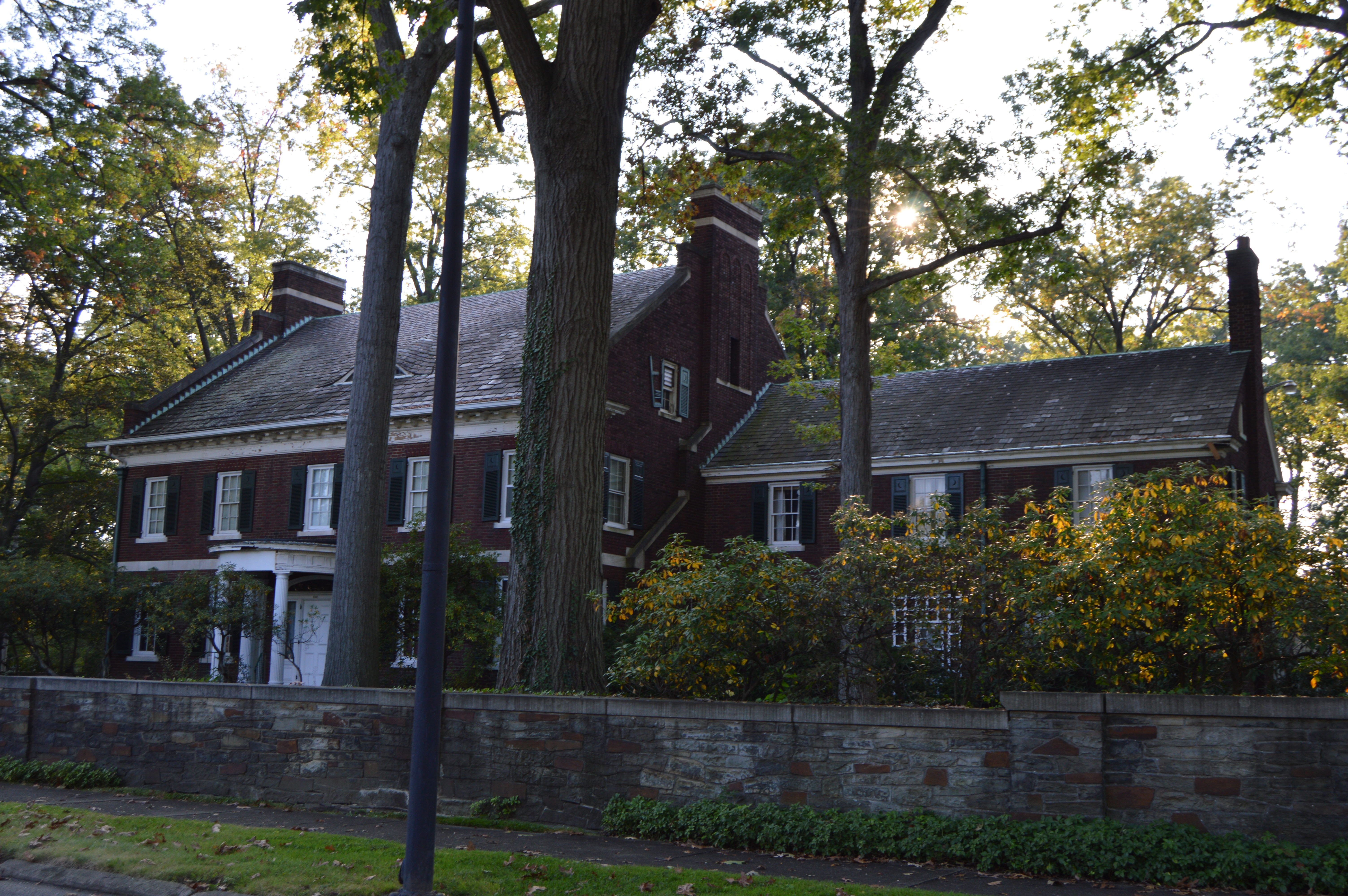 Northern end and front of the James Ward Packard House, located at 319 Oak Knoll Avenue, Northeast in Warren, Ohio, United States. Built in 1924, it is listed on the National Register of Historic Places.